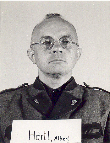 Albert Hartl (1904-1982) at the Nuremberg Trials. Hartl was RSHA-Fuhrer and SS-Member. This photograph of Hartl (probably as a witness) was taken by US Army photographers on behalf of the Office of the U.S. Chief of Counsel for the Prosecution of Axis Criminality (OUSCCPAC, May 1945 - Oct. 1946) or its successor organization, the Office of Chief of Counsel for War Crimes (OCCWC, Oct. 1946 - June 1949).